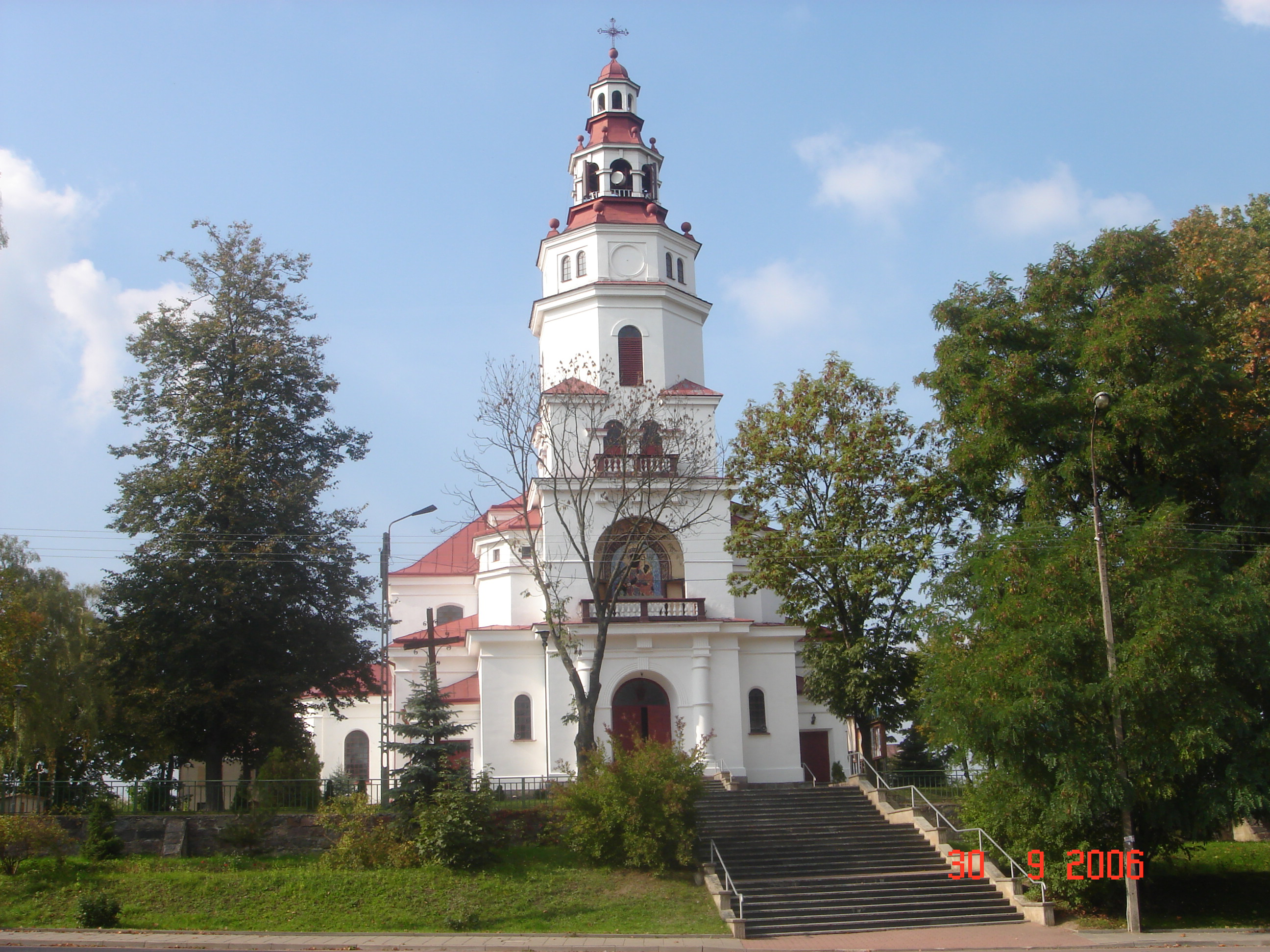 Neobaroque Church of Our Lady of Częstochowa in Mońki (Poland)